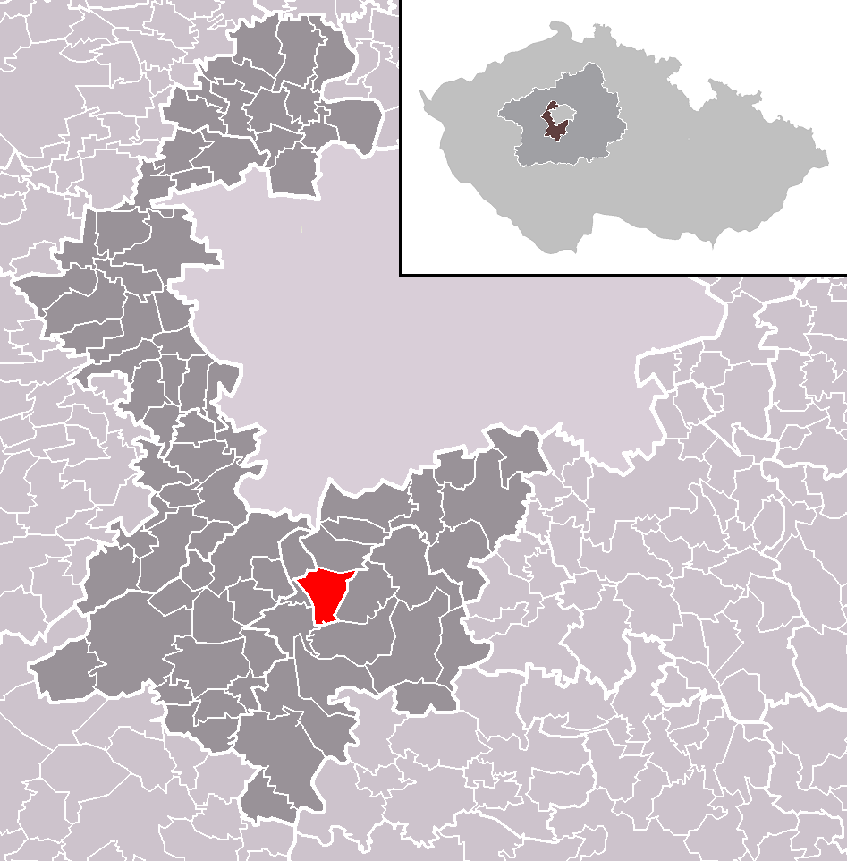 Location of Březová-Oleško municipality within Prague-West District and administrative area of Černošice as a Municipality with Extended Competence.